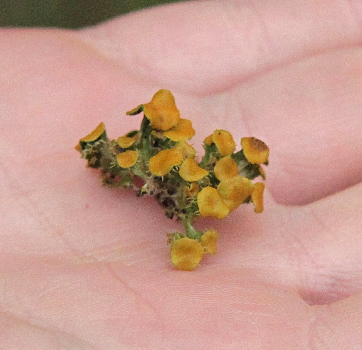 A foliose lichen showing orange apothecia, collected near a California Live Oak (Quercus agrifolia) grove